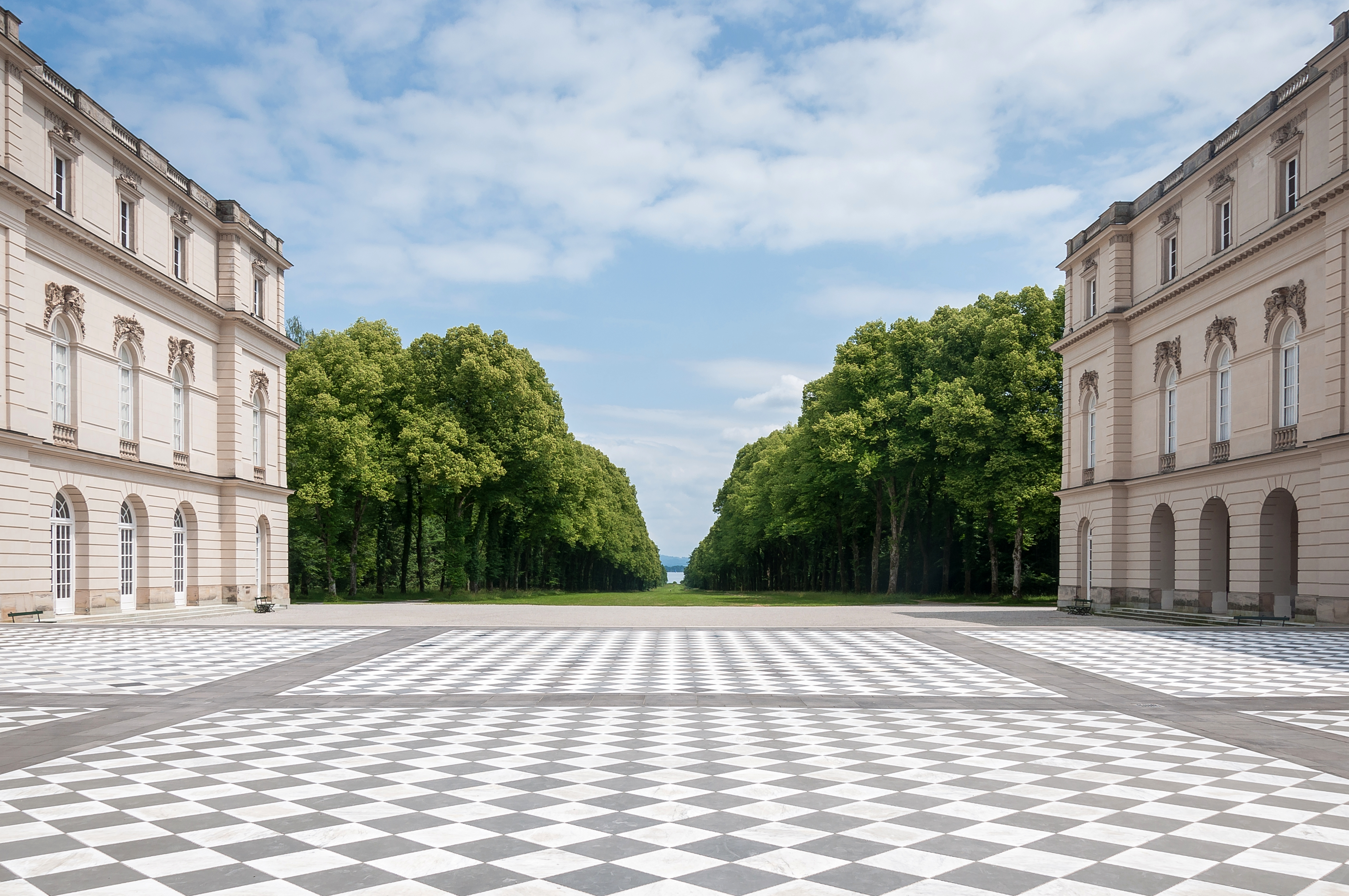 The eastern side of the main axis of castle Herrenchiemsee leads to the lake Chiemsee where a harbour was planned. But castle and harbour as well were never finished.